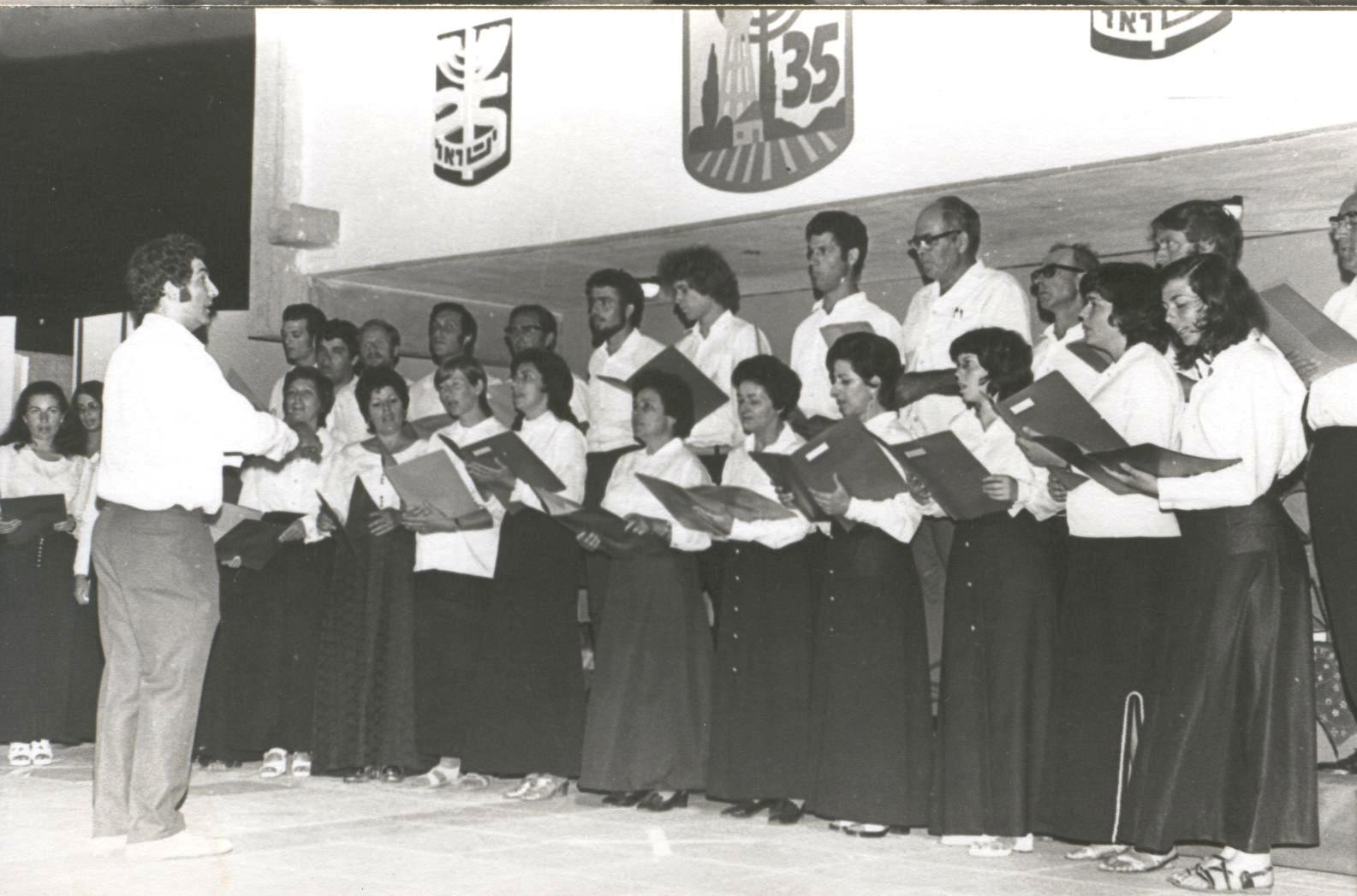 Sde Warburg Concert Choir thirty-fifth anniversary celebrations for the establishment of the settlement.